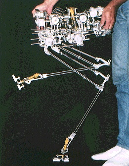 A photo of bird type biped walking robot.